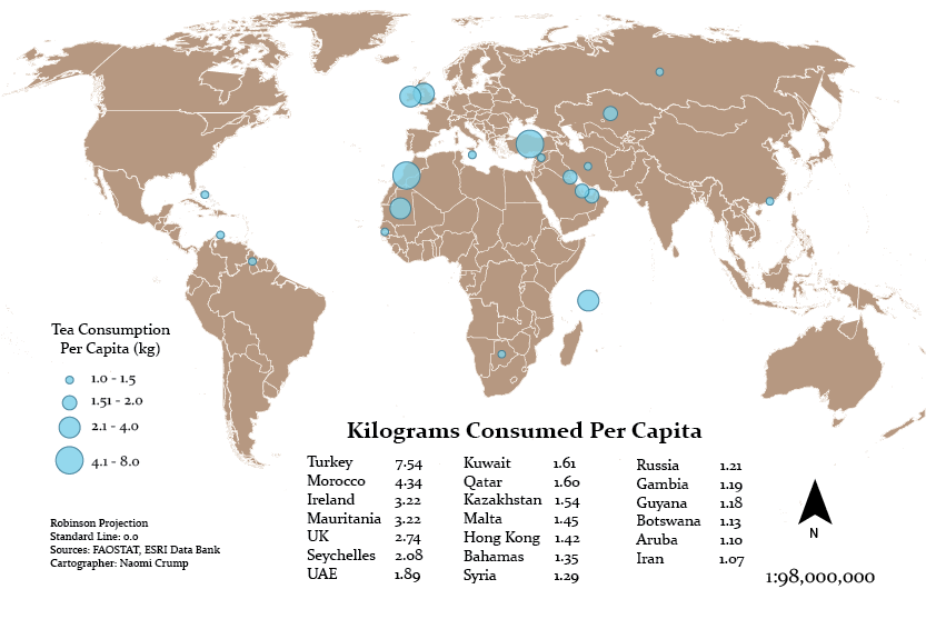 Map of the top 20 tea consuming countries per capita in the world (kg)